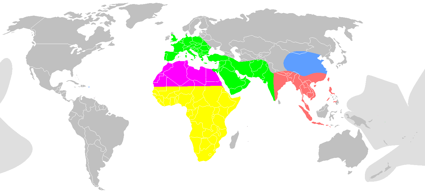 Redrawing of a map from Carleton S. Coon, The Origin of Races (1962). Distribution of Coon's "five races" during the Pleistocene. This is the first half of the combination of two maps numbered "Map 13", labelled "Pleistocene" and "Early Post-Pleistocene". Original caption: "This schematic map shows the distribution of the five subspecies of Homo during most of the Pleistocene, from 500,000 to 10,000 years ago. This distribution matches that on the diagram in Chapter 1. Of the five subspecies, the Congoid was the most isolated; it was in contact with only one other, the Capoid, then resident in North Africa. The second map shows what happened at the end of the Pleistocene, when the Mongoloids and Caucasoids expanded and burst out of their territories. The Mongoloids entered and inhabited America, and extended their domain southward into Southeast Asia and Indonesia, while the Australoids crossed Wallace's Line and occupied Australia and New Guinea. The Caucasoids thrust northward. More significantly, they drove the Capoids out of North Africa and occupied the White Highlands of Kenya and Tanganyika. The Congoids were reduced to a small part of their earlier domain, including the Congo forests and the lands to the north, where they later evolved rapidly and spread, as Negroes, over much of Africa." It was made from a free-use map of the world from Wikipedia Commons.